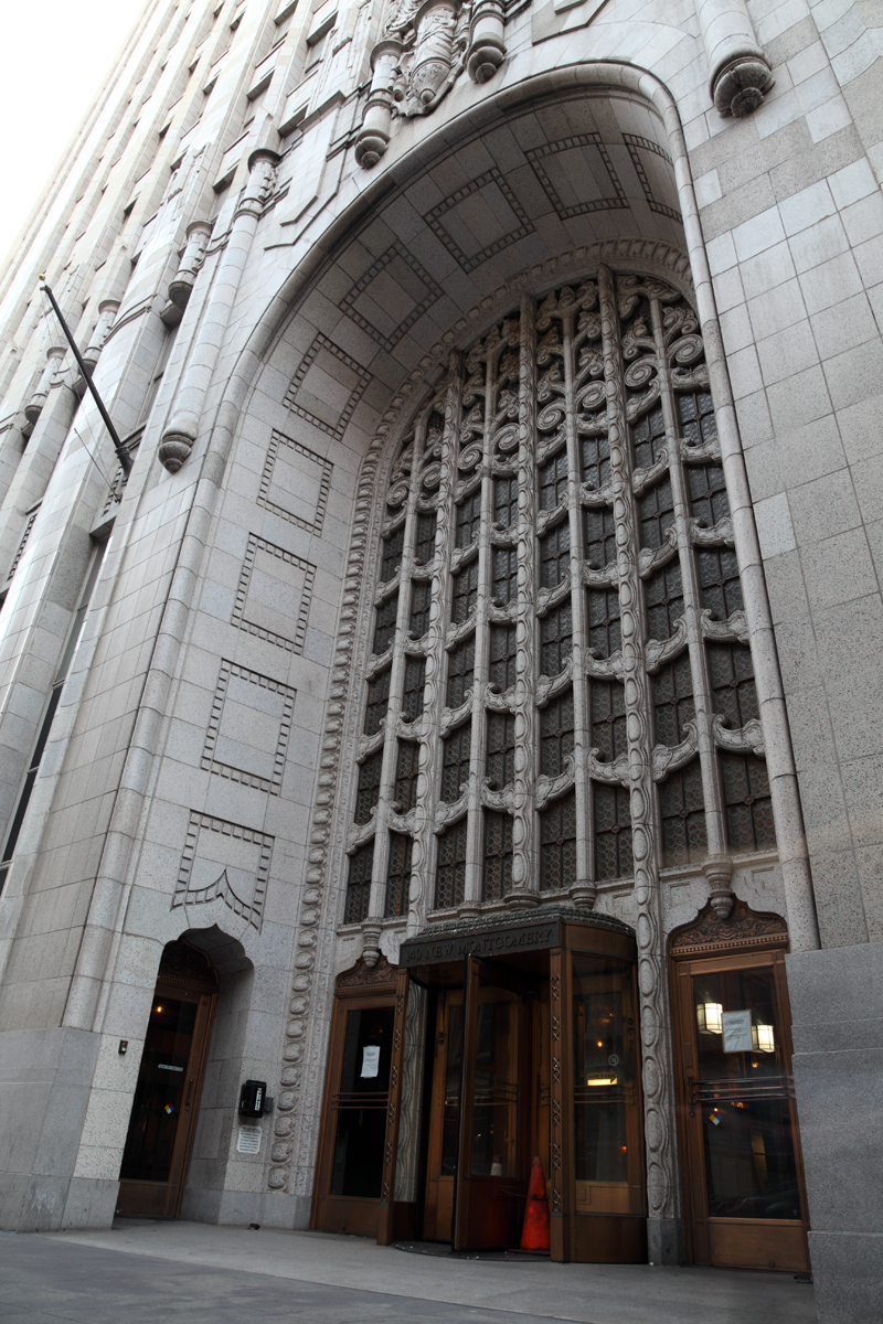 Pacific Bell Building entrance — at 140 New Montgomery Street, San Francisco.